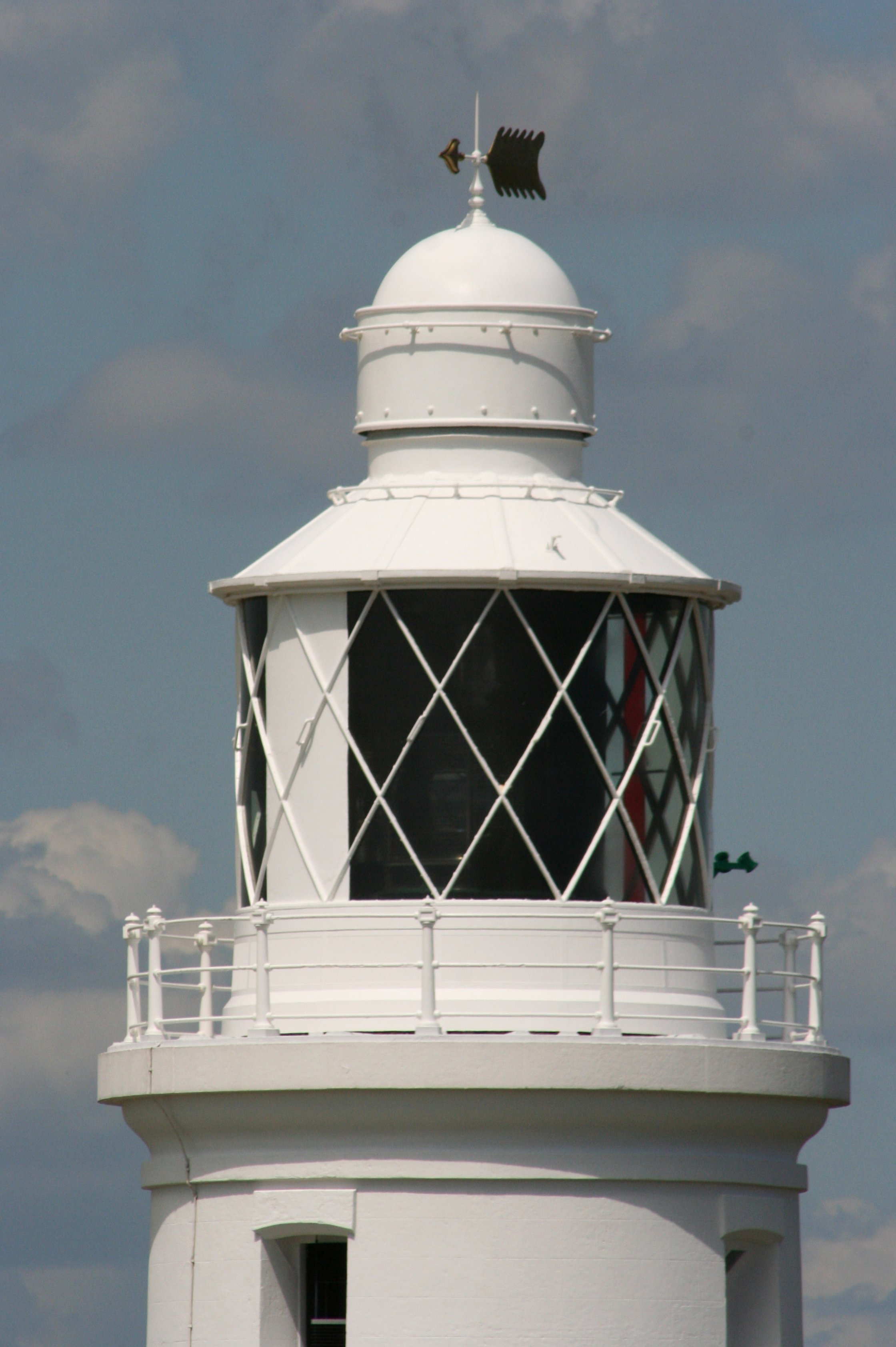 Top of the lighthouse at Hurst Castle; sometimes called the "High Lighthouse".